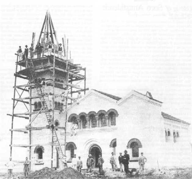 Construction of Havrebjerg Church, Slagelse Municipality, Denmark, Summer 1904.